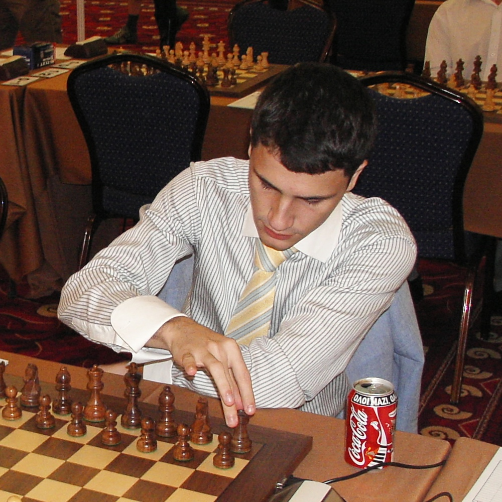 GM Ivan Cheparinov (Bulgaria), Heraklion 2007